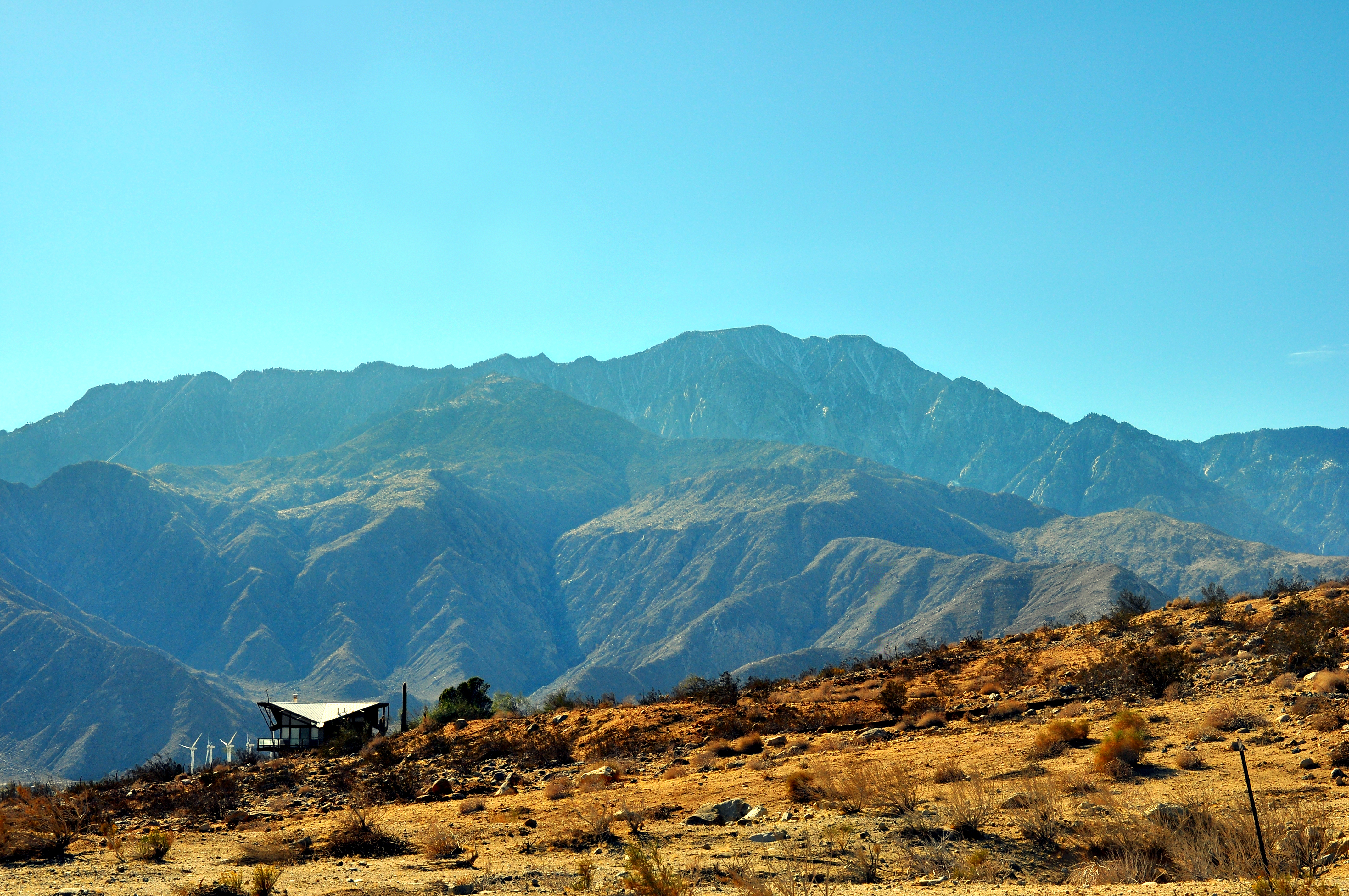 A unique house that was built before the wind generated propellers at the entrance to Palm Springs, at the base of San Jacinto Mountain.